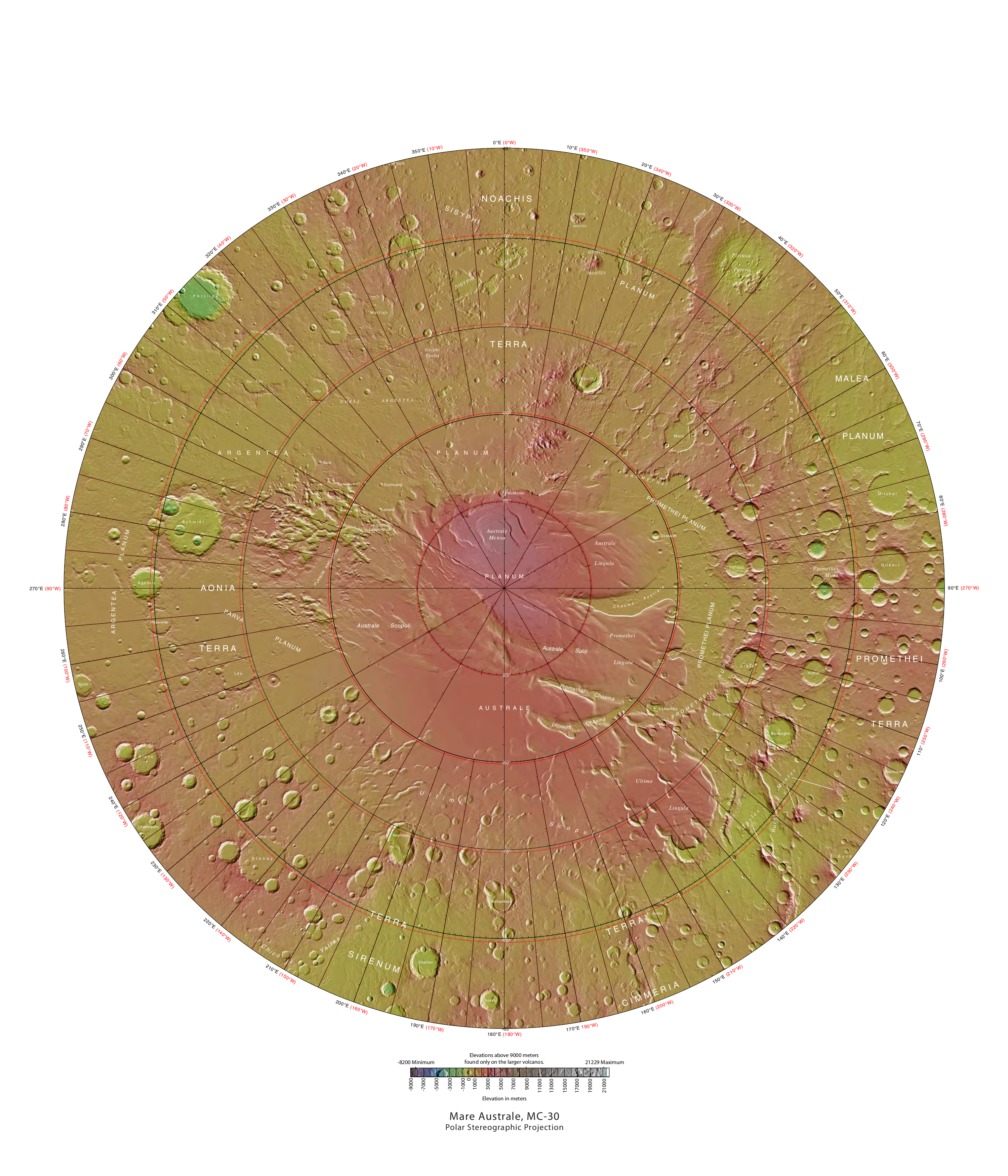 MOLA Topographic Map of Mare Australe Quadrangle (MC-30) on the planet Mars. NOTE: Converted the original PDF file to a PNG File (via GIMP v2.8.4 program) - and uploaded to Wikimedia Commons.